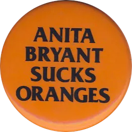 Button distributed by opponents to the Save Our Children campaign